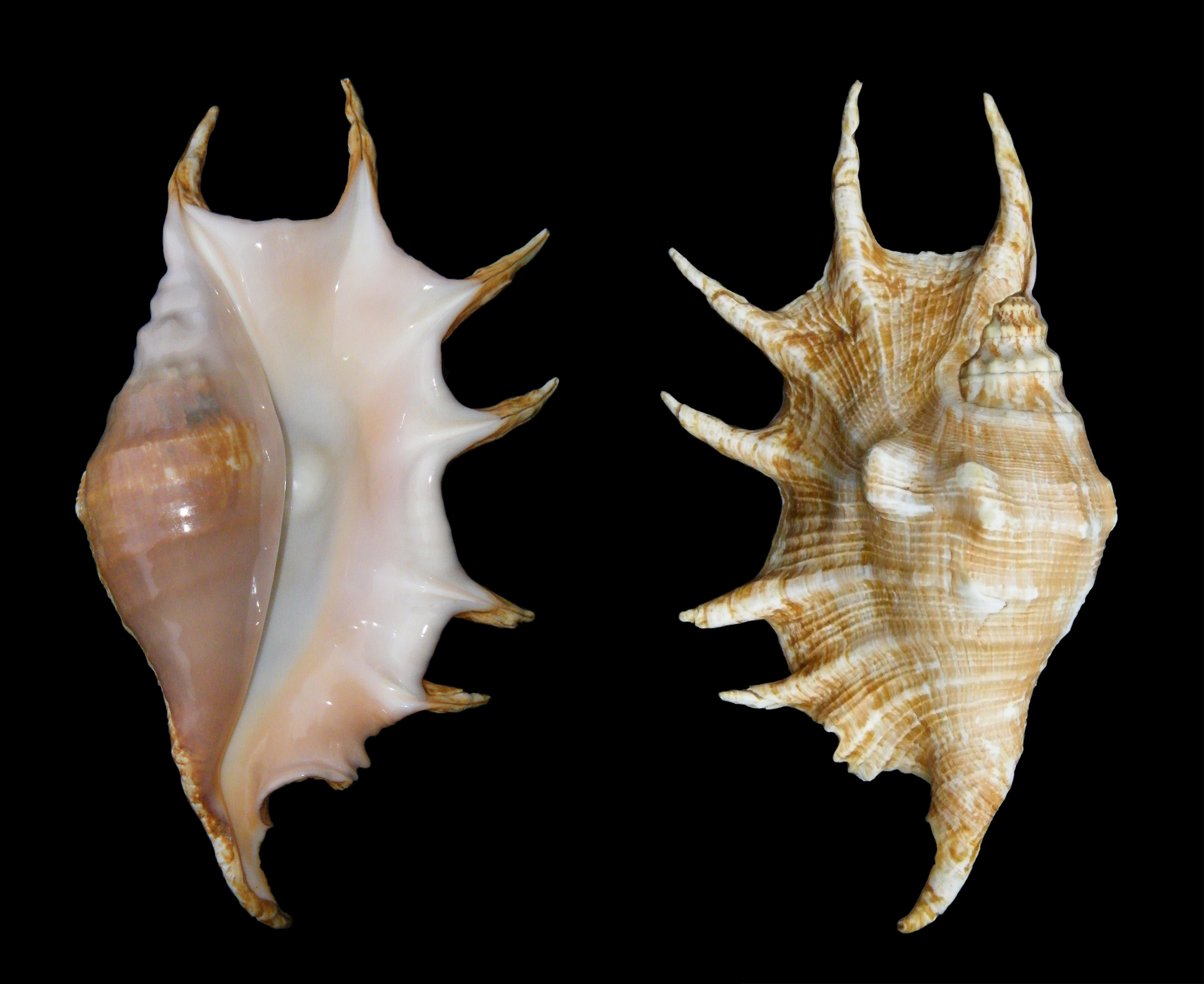 Lambis truncata sebae Kiener, 1843, Djibouti 1994, 28 cm.